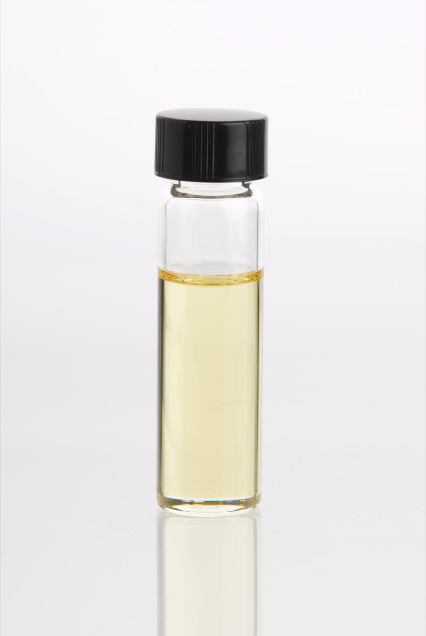 Glass vial containing Eucalyptus Dives Essential Oil